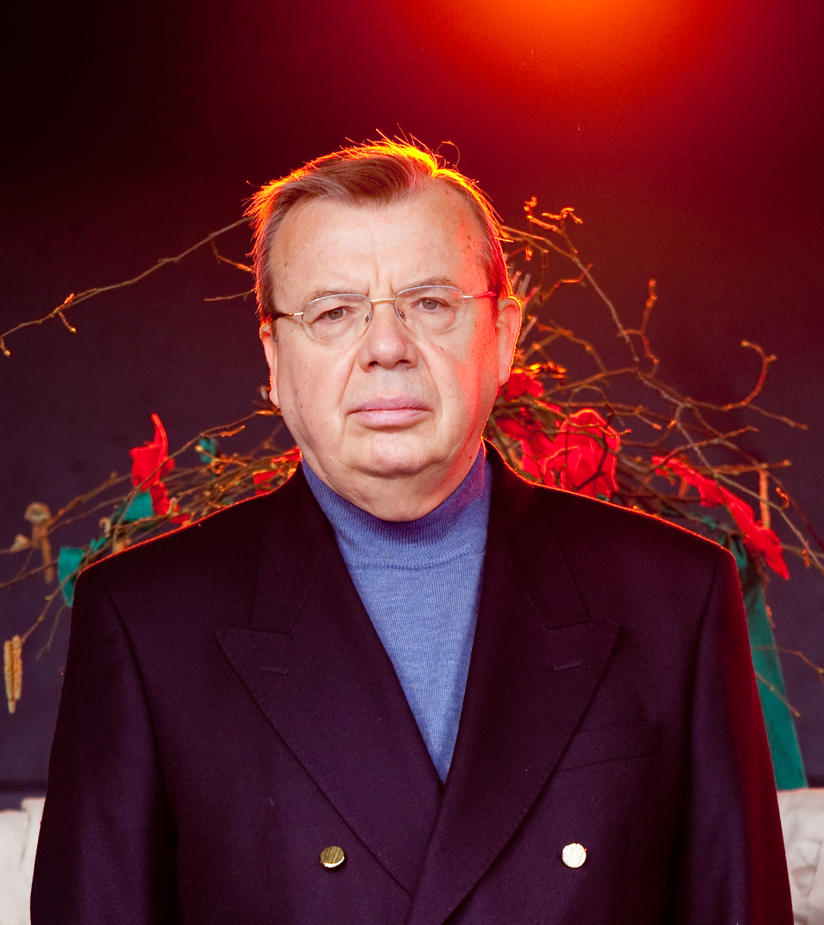 Russian ambassador to the United Kingdom Yuri Fedotov at the the Russian Maslenitsa festival in Potters Field Park, Tower Hill, London.